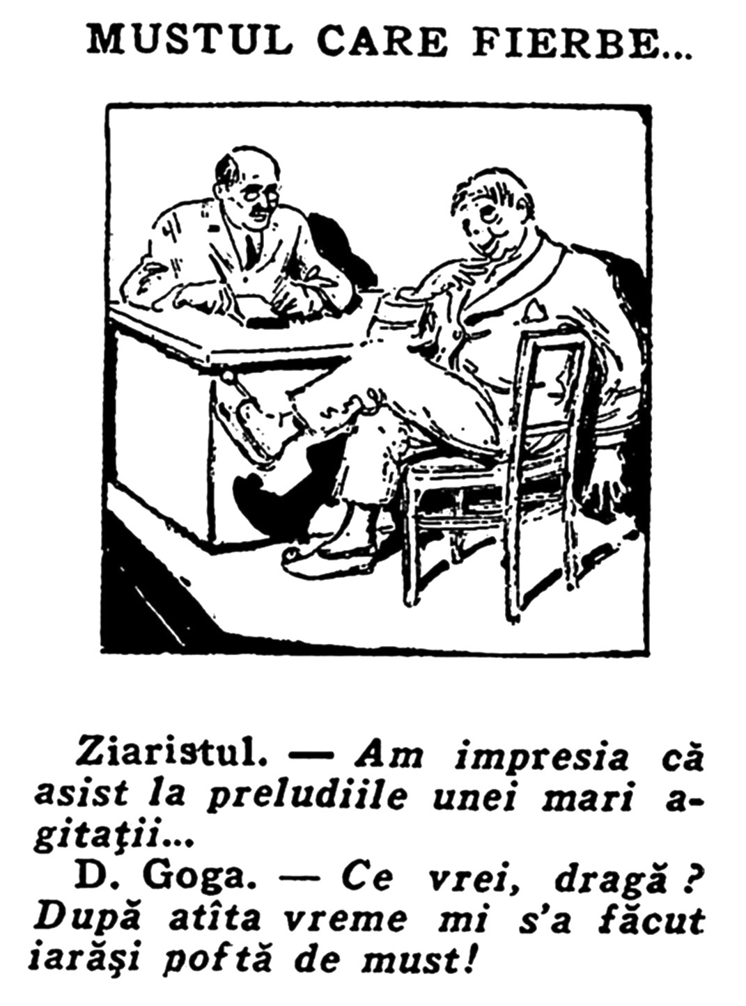 Mustul care fierbe ("The Frothing Must"), political cartoon mocking the Romanian nationalist politico Octavian Goga. Titled after, and jokingly misquoting, Goga's political pamphlet of the same name, it was published just prior to the December 1933 parliamentary election. Goga is in the foreground; the other figure is an unnamed journalist interviewing him.Journalist to Goga: Am impresia că asist la preludiile unei mari agitaţii... ("I feel as if I am witnessing the preludes of a great agitation..."); Goga: Ce vrei, dragă? După atîta vreme mi s'a făcut iarăşi poftă de must! ("What can I tell you, dear? After all this time [i.e.: out of the spotlight] I still get thirsty for must!")